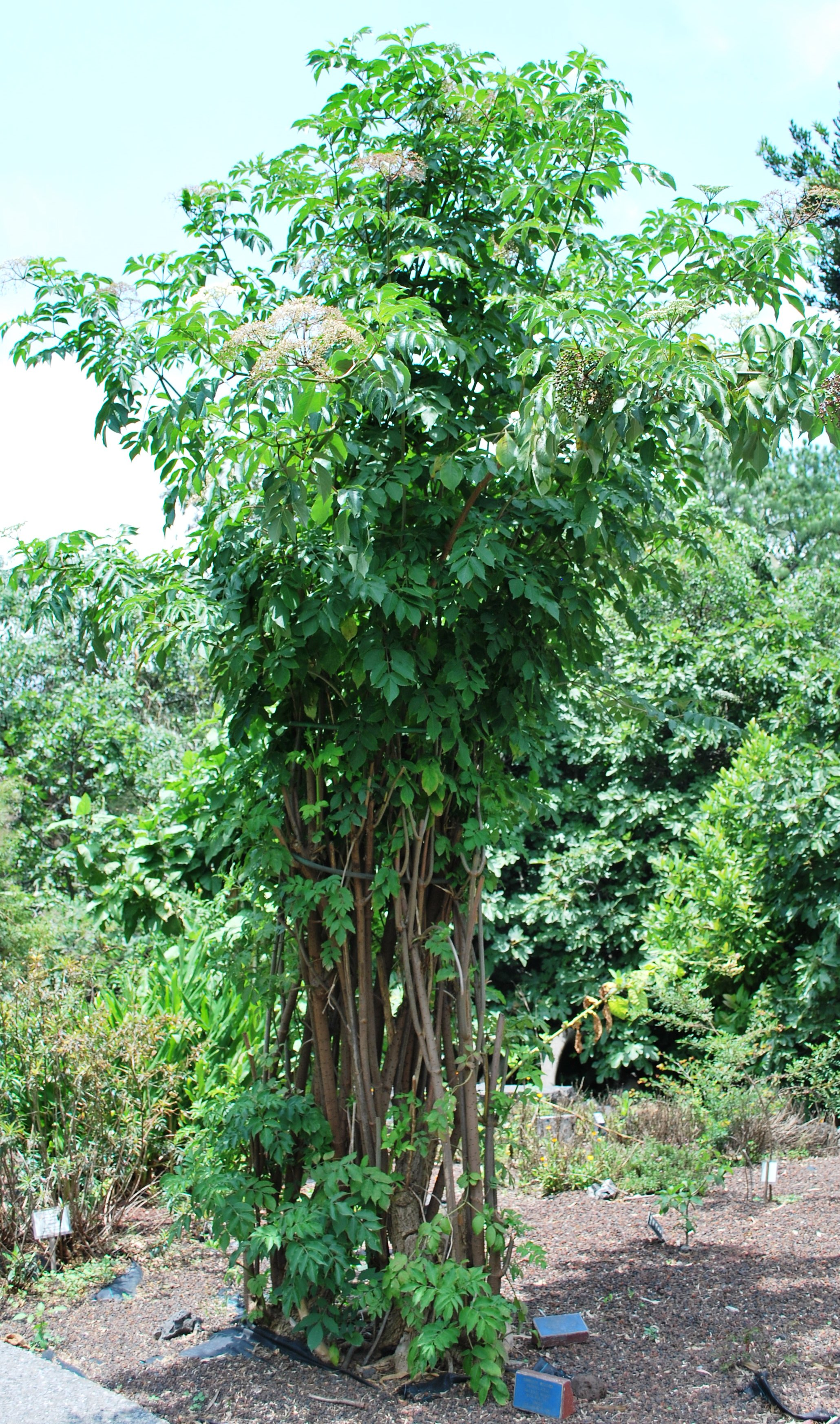 Sambucus mexicana in the medicinal plant section of the Botanical Garden of UNAM in Mexico City